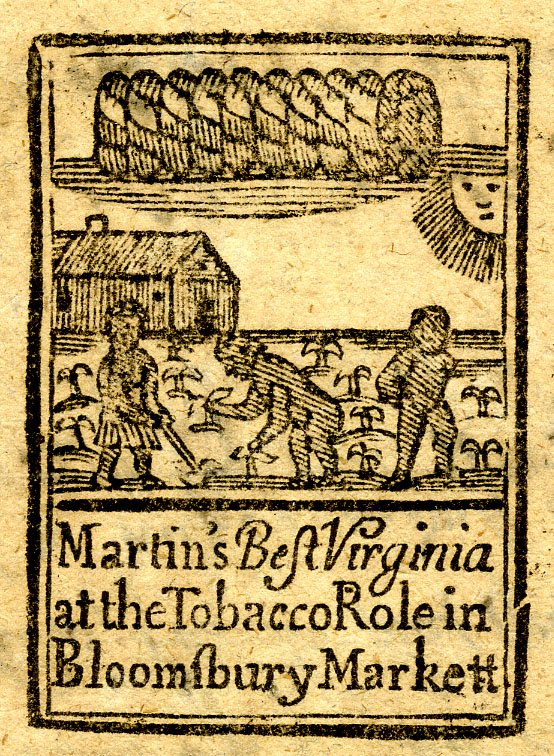 "Martin's Best Virginia at the Tobacco Role in Bloomsbury Market," woodcut, advertisement for Virginia tobacco, and showing black children working on a tobacco plantation in Virginia. 58 mm x 42 mm. Courtesy of the British Museum, London.